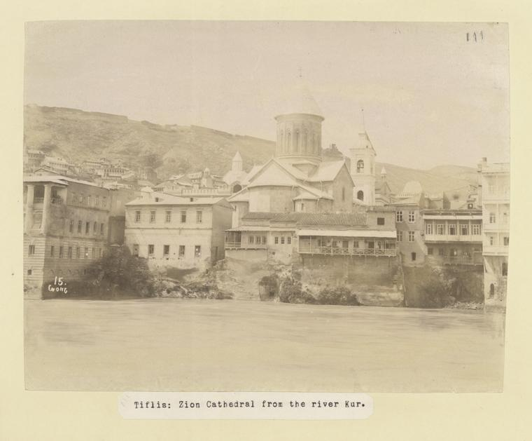 Sioni Cathedral. A wintage photo from the 1870s.